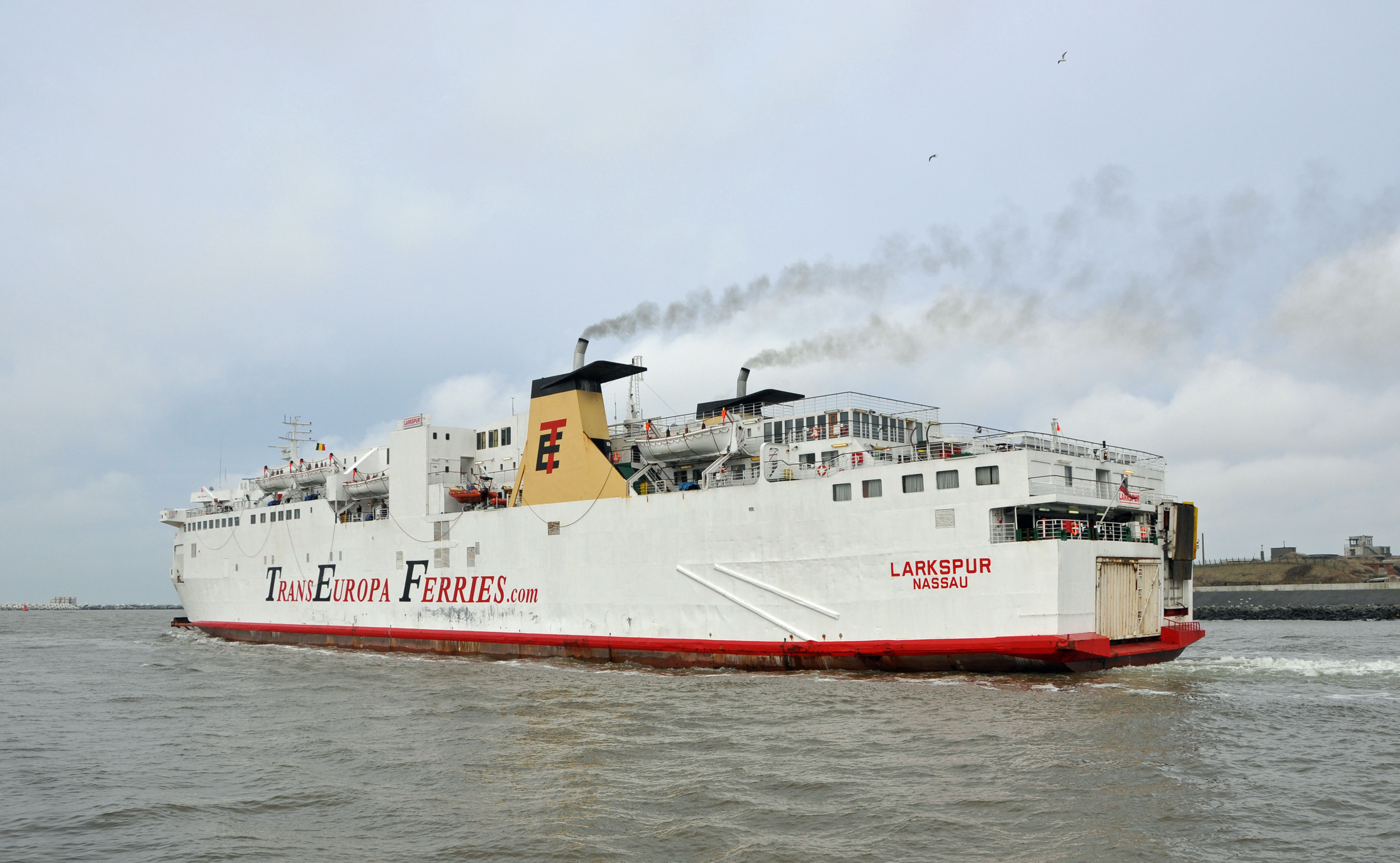 MV Larkspur of Transeuropa Ferries leaving the harbour of Ostend (Belgium) heading for Ramsgate (England)